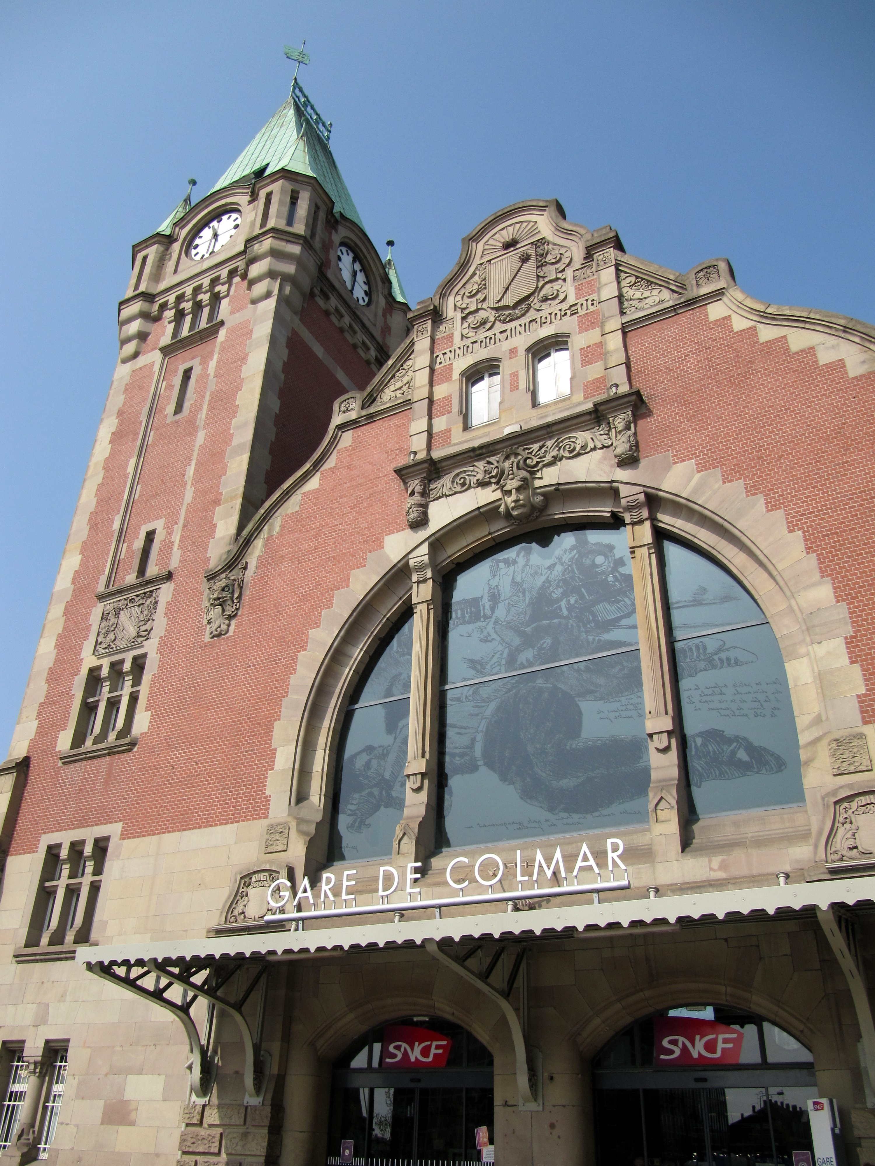 Colmar Train station, Haut-Rhin, France.